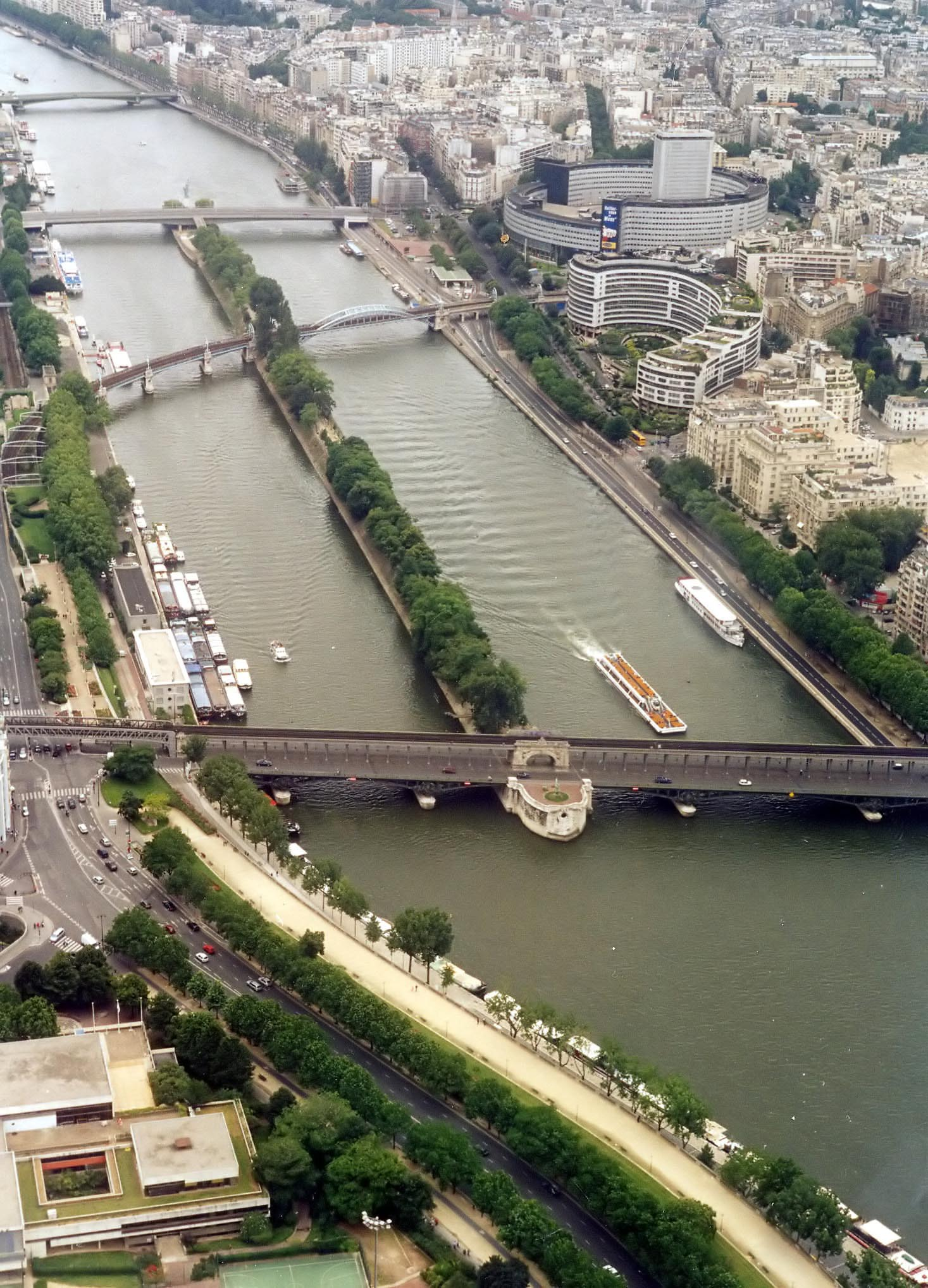 Île aux Cygnes (i.e. Isle of the Swans) from the top level of the Eiffel Tower.